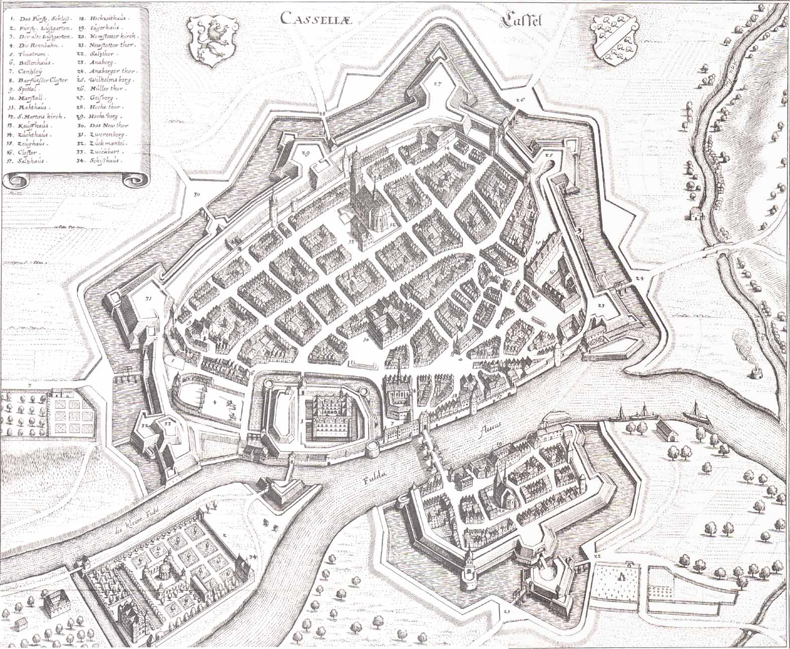 Part of engraving, shows Kassel in Hesse, Germany